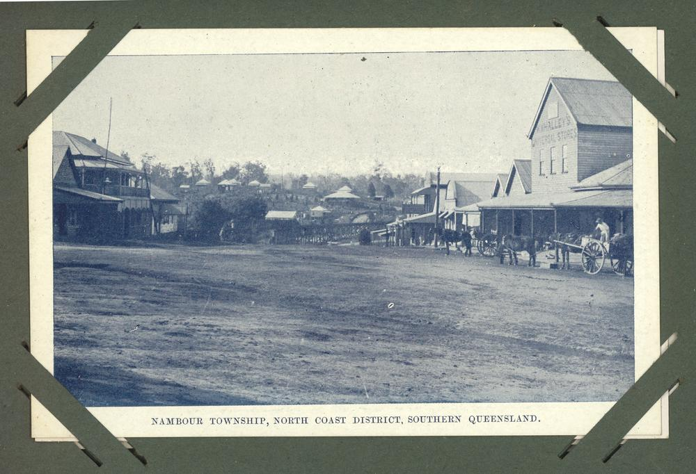 Main street in Nambour, ca. 1905. Wide street in the centre of Nambour with shops and businesses on either side of the street.